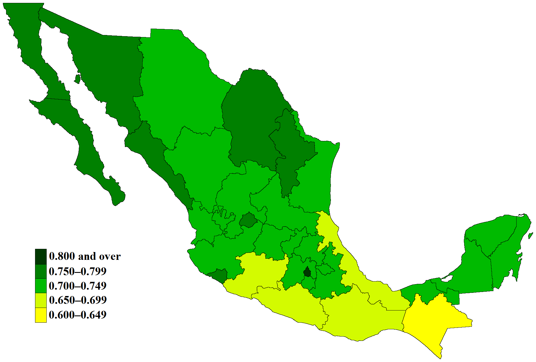 Mexican states coloured by HDI as reported